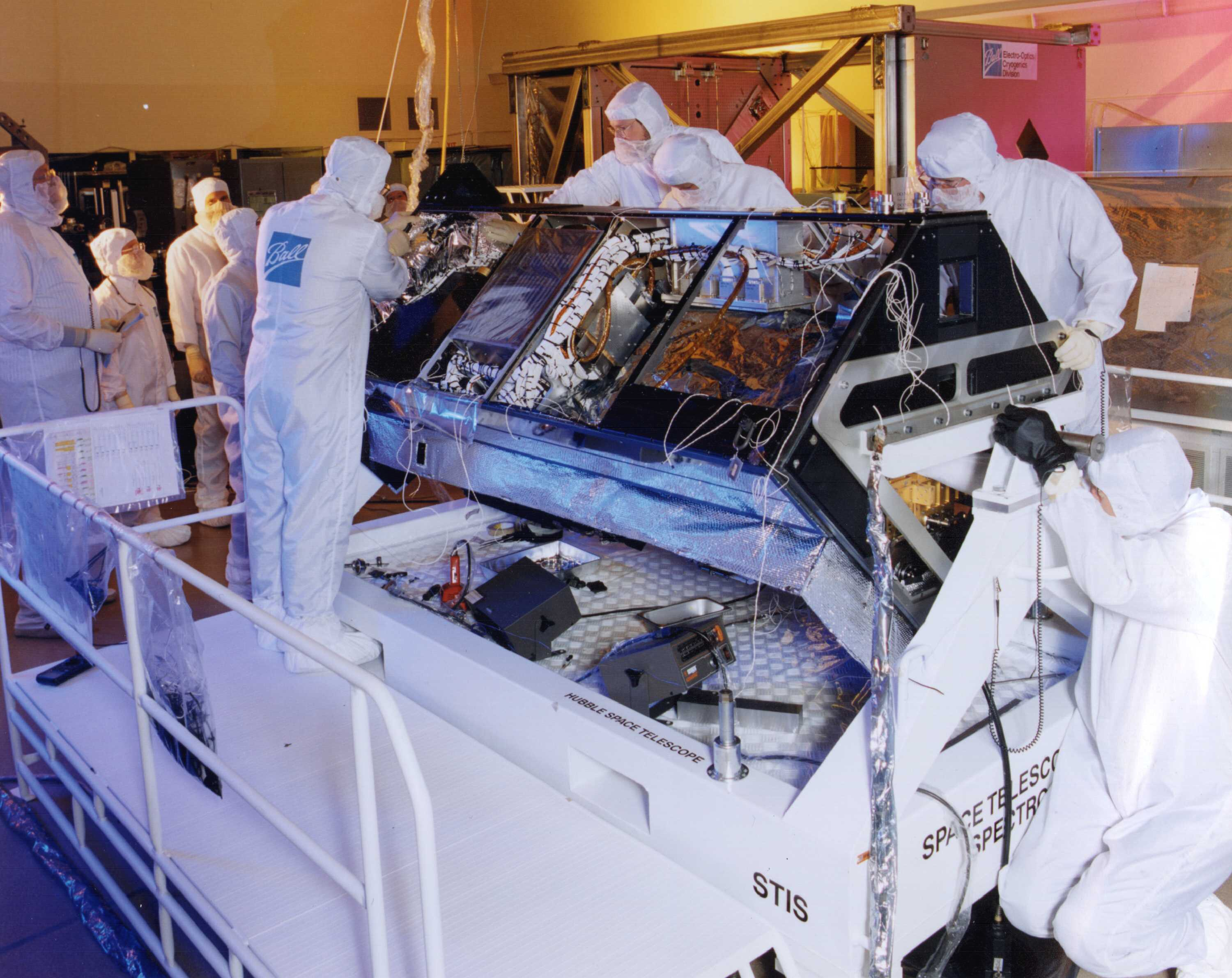 Building the Space Telescope Imaging Spectrograph of Hubble Space Telescope (1996) Engineers in a clean room at Ball Aerospace in Boulder, Colo., work on one of Hubble’s instruments, the Space Telescope Imaging Spectrograph (STIS), in 1996. The instrument, installed in Hubble in 1997, breaks light into colors, giving scientists an important analytical tool for studying the cosmos. STIS has been used to study such objects as black holes, new stars, and massive planets forming outside our solar system.